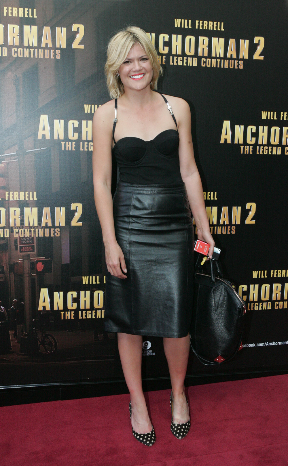 Anchorman 2 The Australian Premiere The Legend Continues